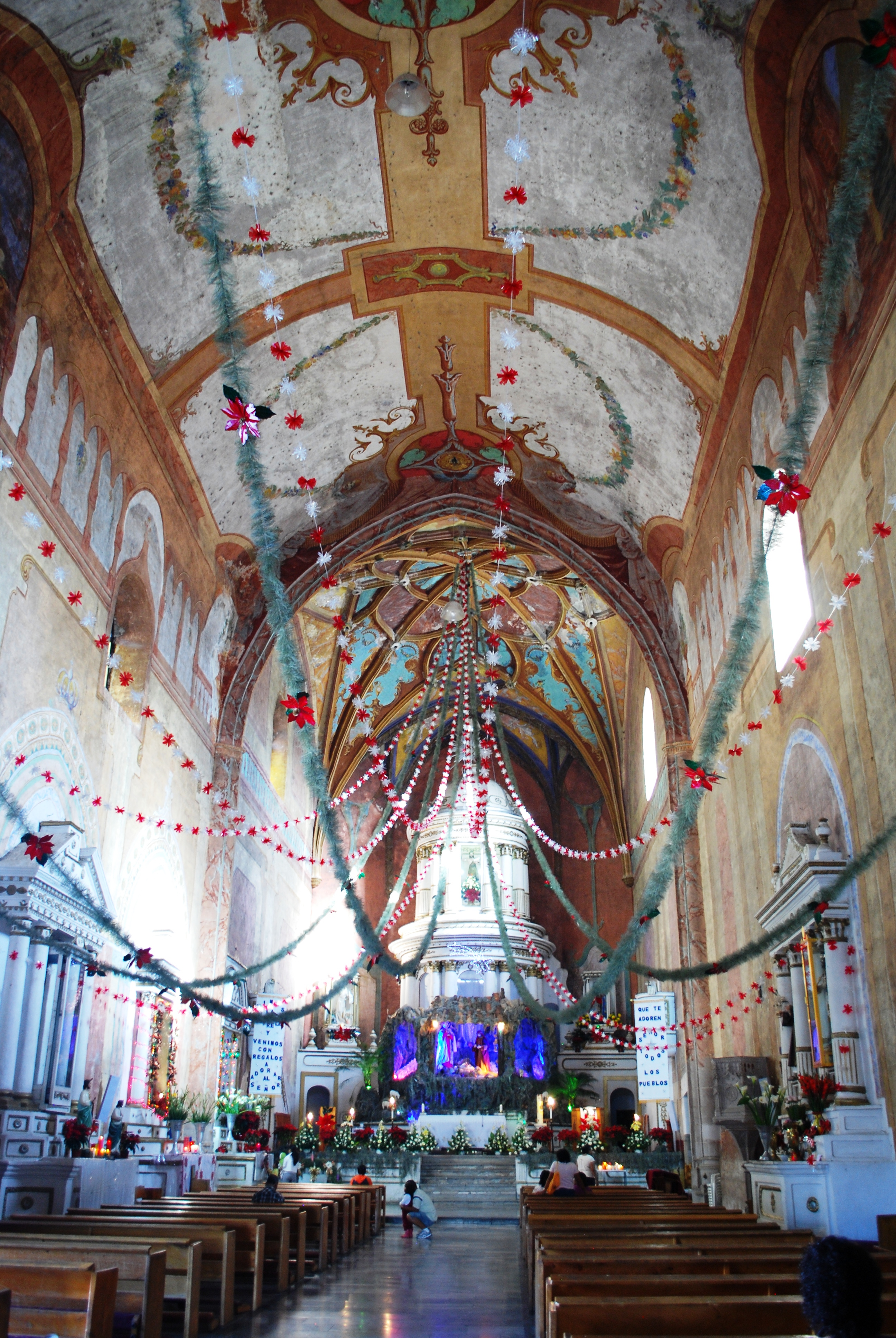 Main nave of the San Juan Bautista Church decorated for Christmas in Yecapixtla, Morelos, Mexico